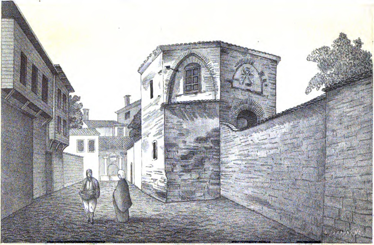 Byzantinai meletai topographikai (1877) Author: Paspatēs, Alexandros Geōrgiou, 1814-1891. [from old catalog] Subject: Inscriptions, Greek Year: 1877 Possible copyright status: NOT_IN_COPYRIGHT Language: English Digitizing sponsor: Google Book contributor: Oxford University Collection: europeanlibraries